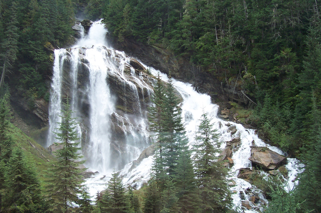 Pyramid Falls, near Valemount, British Columbia. Seen from the Rocky Mountaineer train.